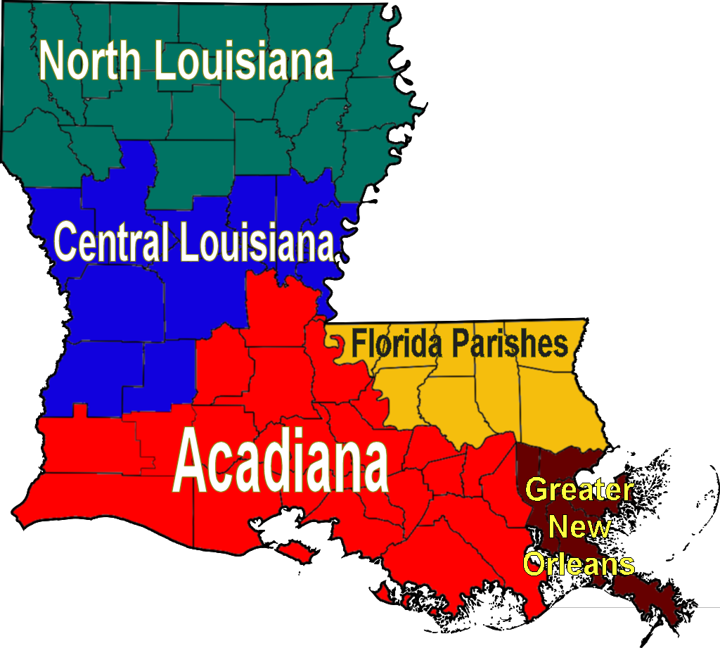 Map of Louisiana's regions (English)